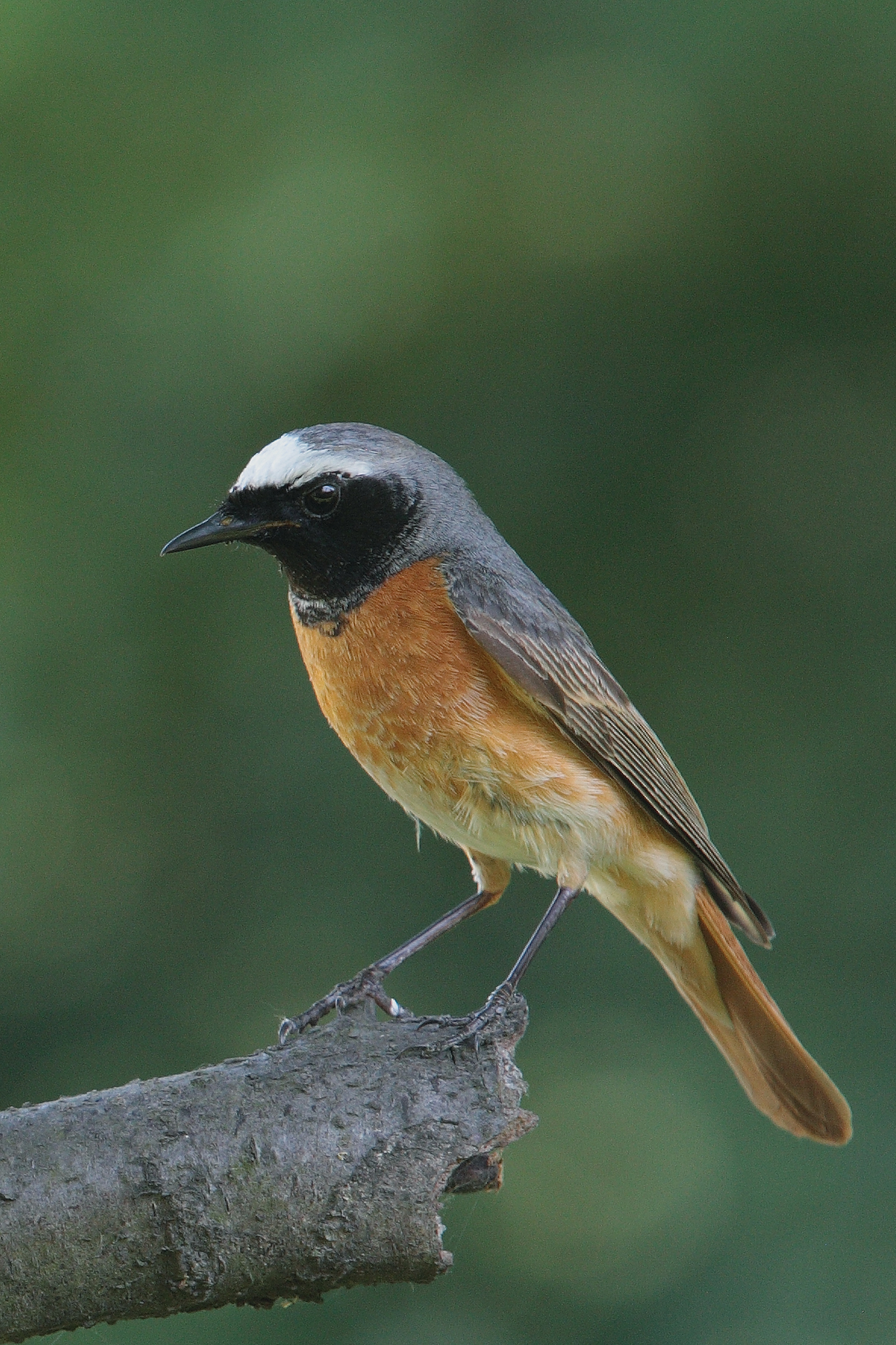 Common Redstart (Phoenicurus phoenicurus) male